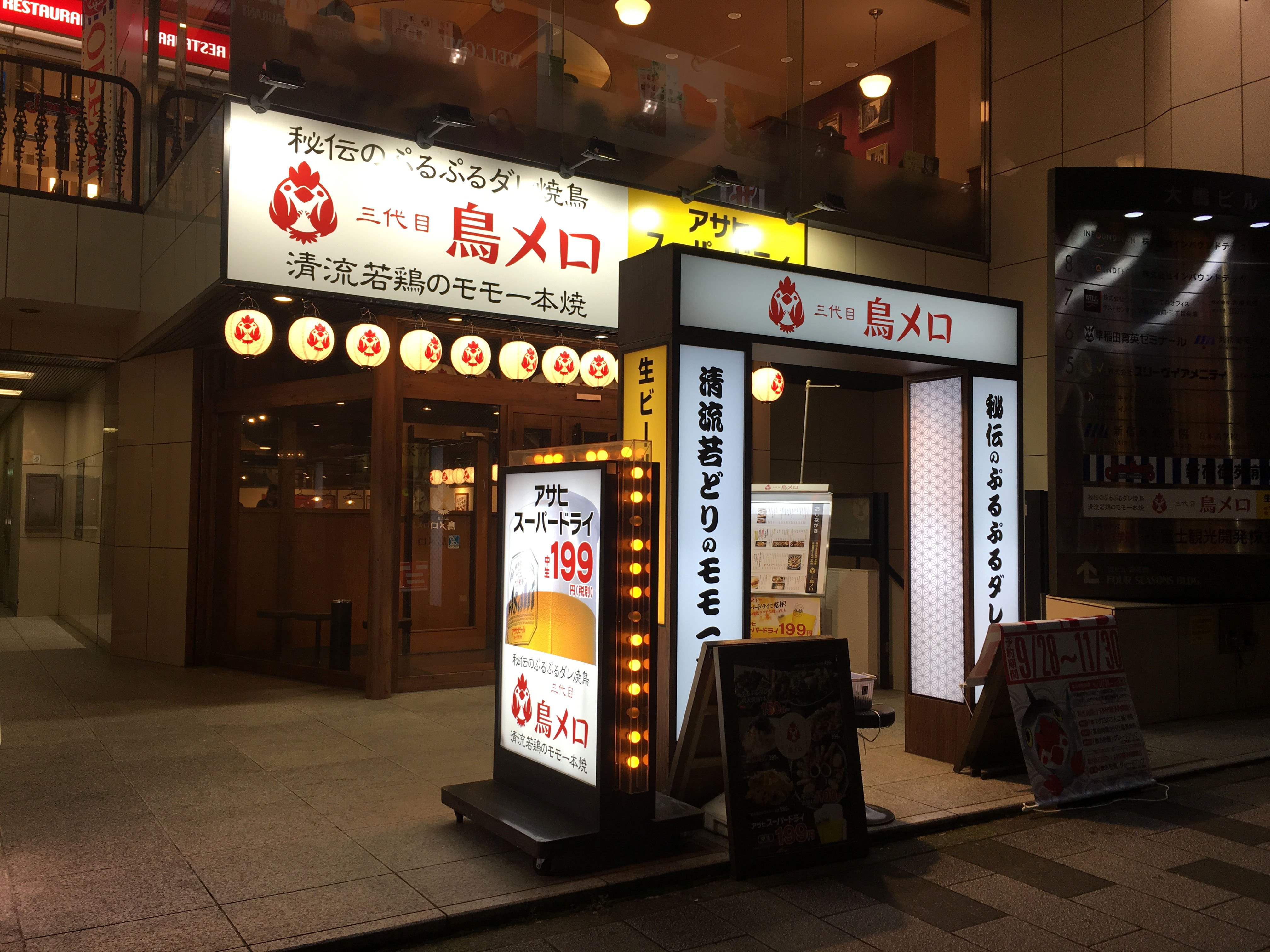 Sandaime Torimero (Japanese bar chain) Shinjuku Gyoen-mae branch (Tokyo, Japan)